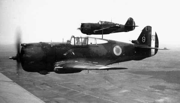 3 Curtiss H75 in close formation belongings to the GC I/4